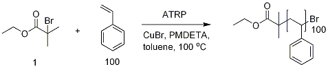 In this scheme, the ATRP with styrene is depicted as an example of ATRP. If all the styrene is reacted (the conversion is 100%) the polymer will have 100 units of styrene built into it. PMDETA stands for N,N,N',N,N pentamethyldiethylenetriamine.